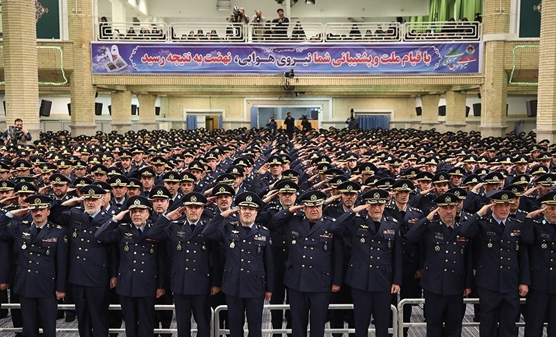 Iranian Air Forces renewal with Iran Supreme Leader, Ali Khamenei in anniversary of their pledge with Ruhollah Khomeini in 1979